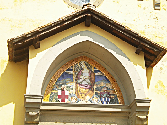 mosaic lunette